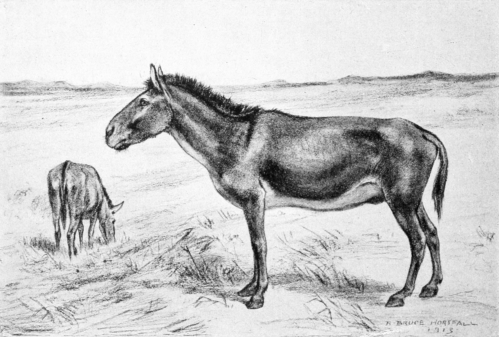 Life restoration of Equus scotti from W.B. Scott's "A History of Land Mammals in the Western Hemisphere". New York: The Macmillan Company.